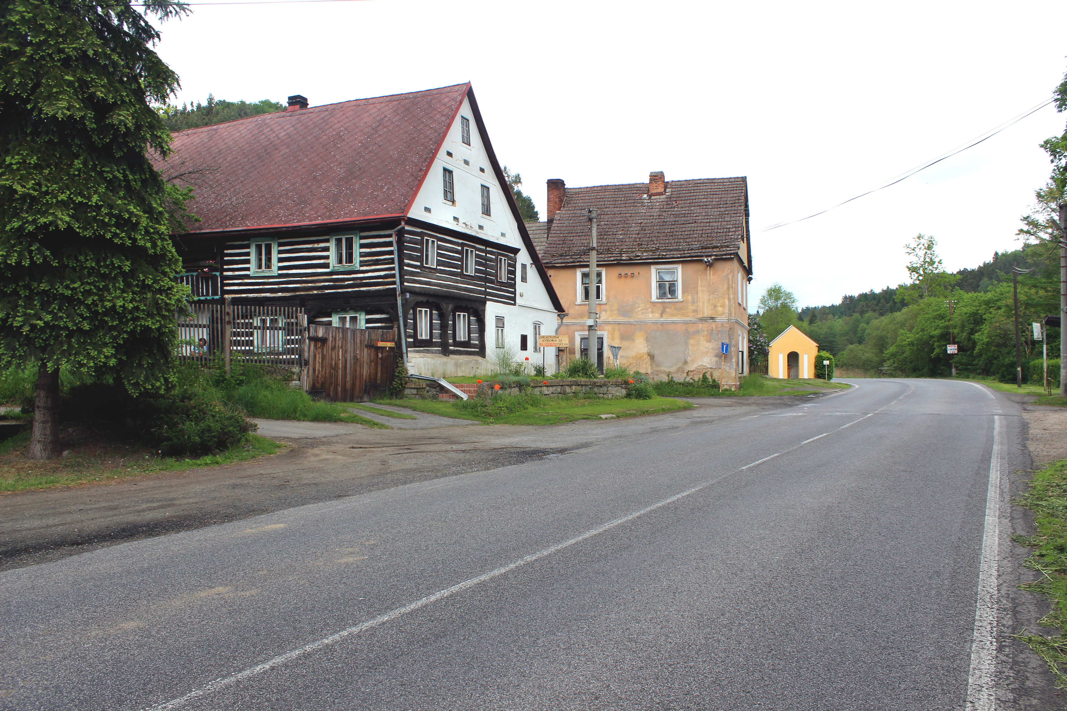 Road No. 9 in Medonosy, Czech Republic